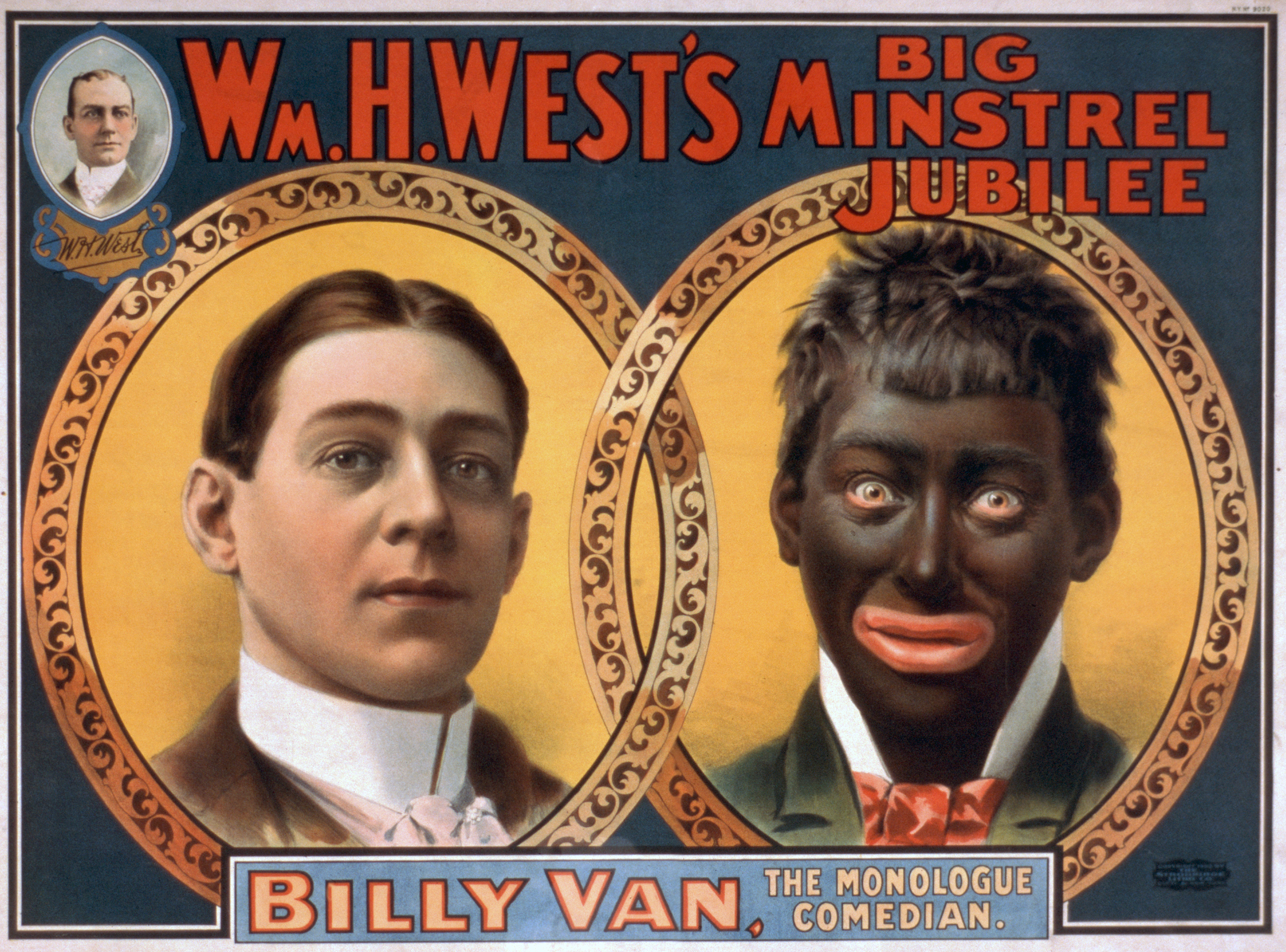 Caption: Billy Van, the monologue comedian. TITLE: Wm. H. West's Big Minstrel Jubilee CALL NUMBER: POS - MIN - .W48, no. 35 (C size) [P&P] REPRODUCTION NUMBER: LC-USZC4-5698 (color film copy transparency) LC-USZ62-24132 (b&w film copy neg.) MEDIUM: 1 print (poster) : lithograph, color ; 76 x 101 cm. CREATED/PUBLISHED: Cin'ti ; New York : Strobridge Litho. Co., c1900. CREATOR: Strobridge & Co. Lith. NOTES: Created and "copyright 1900 by The Strobridge Litho Co, Cin'ti & New York." N.Y. no. 9020. SUBJECTS: Van, Billy, 1860-1912--Performances. African Americans--Performances & portrayals. Comedians. Minstrel shows. FORMAT: Portrait prints. Theatrical posters American. Lithographs Color. PART OF: Minstrel Poster Collection (Library of Congress) REPOSITORY: Library of Congress Prints and Photographs Division Washington, D.C. 20540 USA DIGITAL ID: (digital file from intermediary roll copy film) var 1831 CONTROL #: var1994001770/PP that picture is jim crow